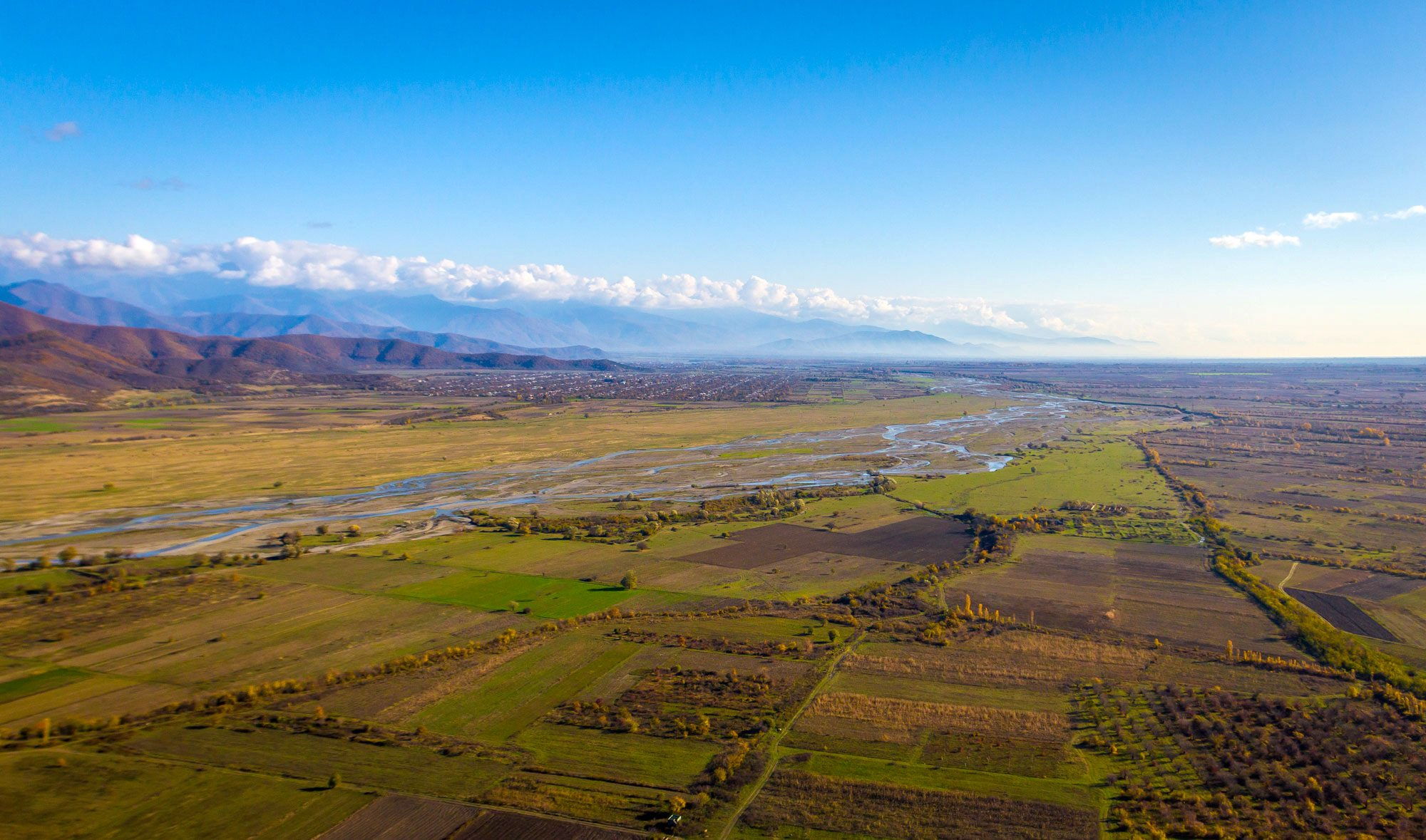 Alazani River, Akhmeta Municipality, Kakheti, Georgia